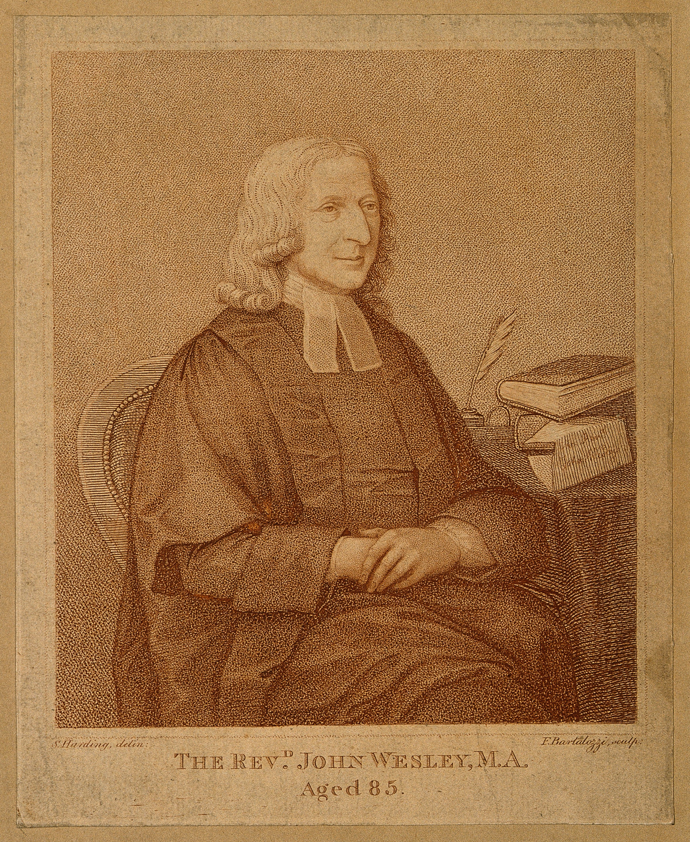 John Wesley. Stipple engraving by F. Bartolozzi after J. Zoffany, 1760. Iconographic Collections Keywords: portrait prints; stipple prints; John Wesley